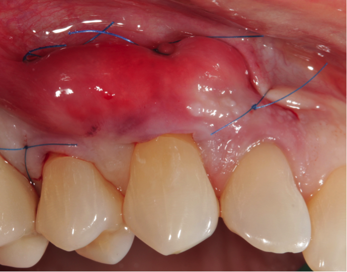 A small incision allows the packing of the APRF membranes under the gums and are secured on the roots with microscopic sutures.